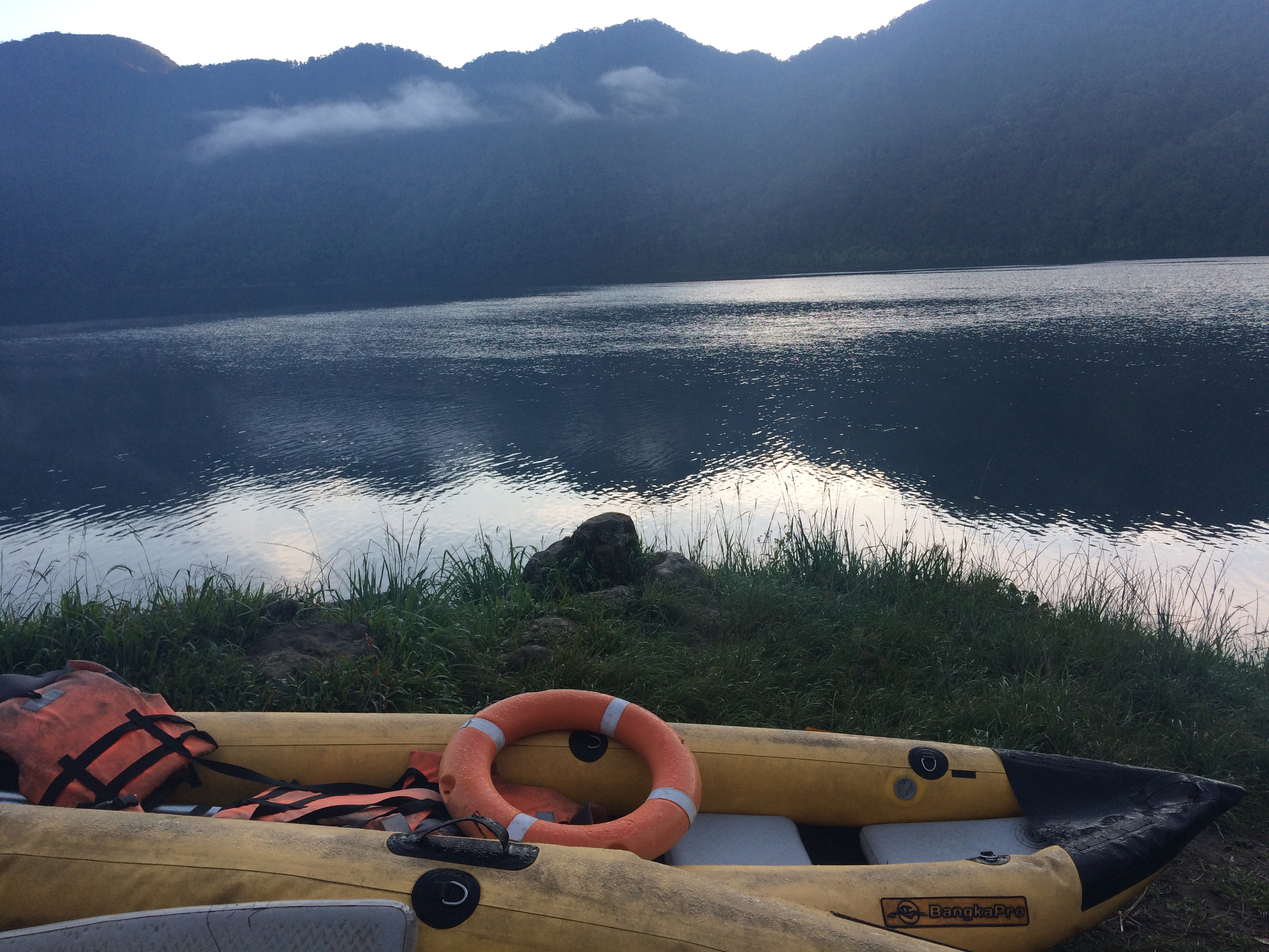 Savouring the beauty of the exotic Lake Holon.